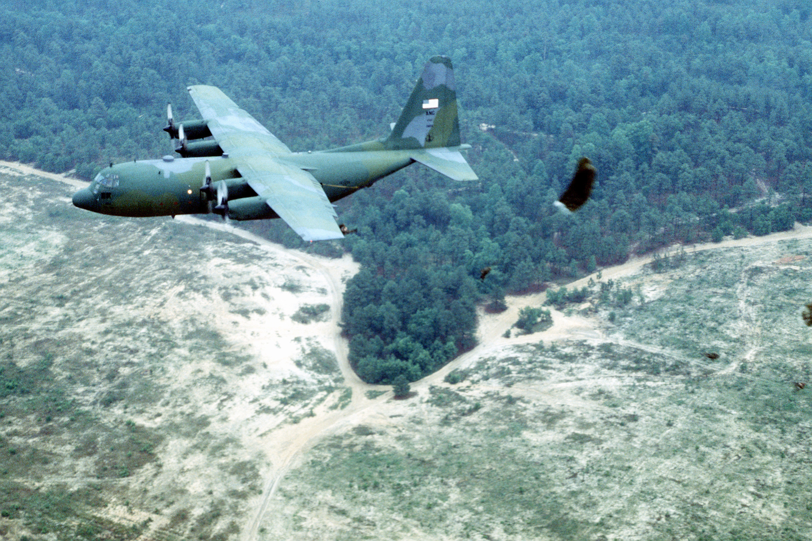 A U.S. Air Force Lockheed C-130H Hercules from the 109th Airlift Squadron, 133rd Airlift Wing, Minnesota Air National Guard, dropping U.S. Army paratroopers during the "Rodeo 92" airdrop competition at Pope Air Force Base, North Carolina (USA).